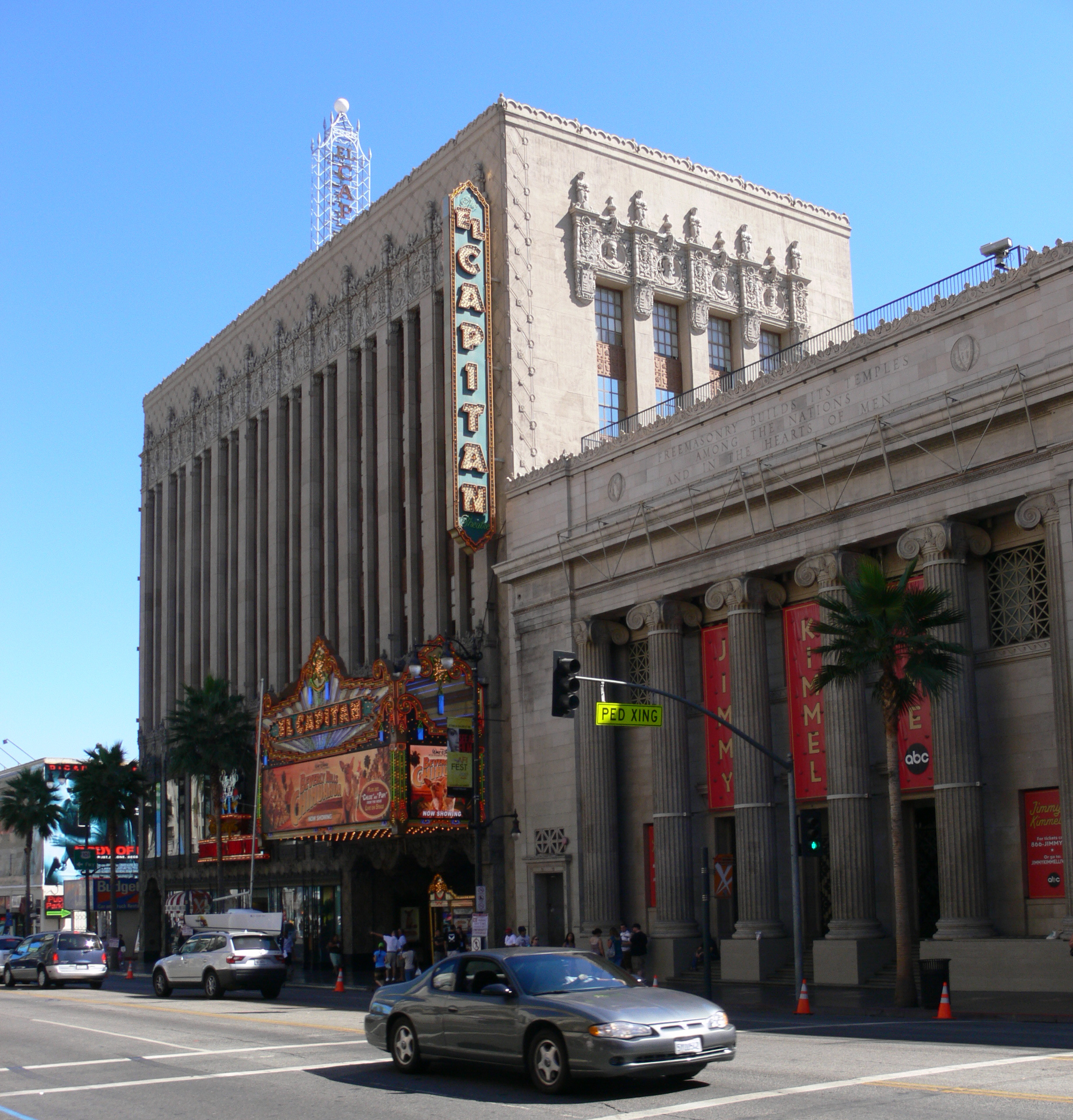 El Capitan Theater, Hollywood Boulevard, Los Angeles, California